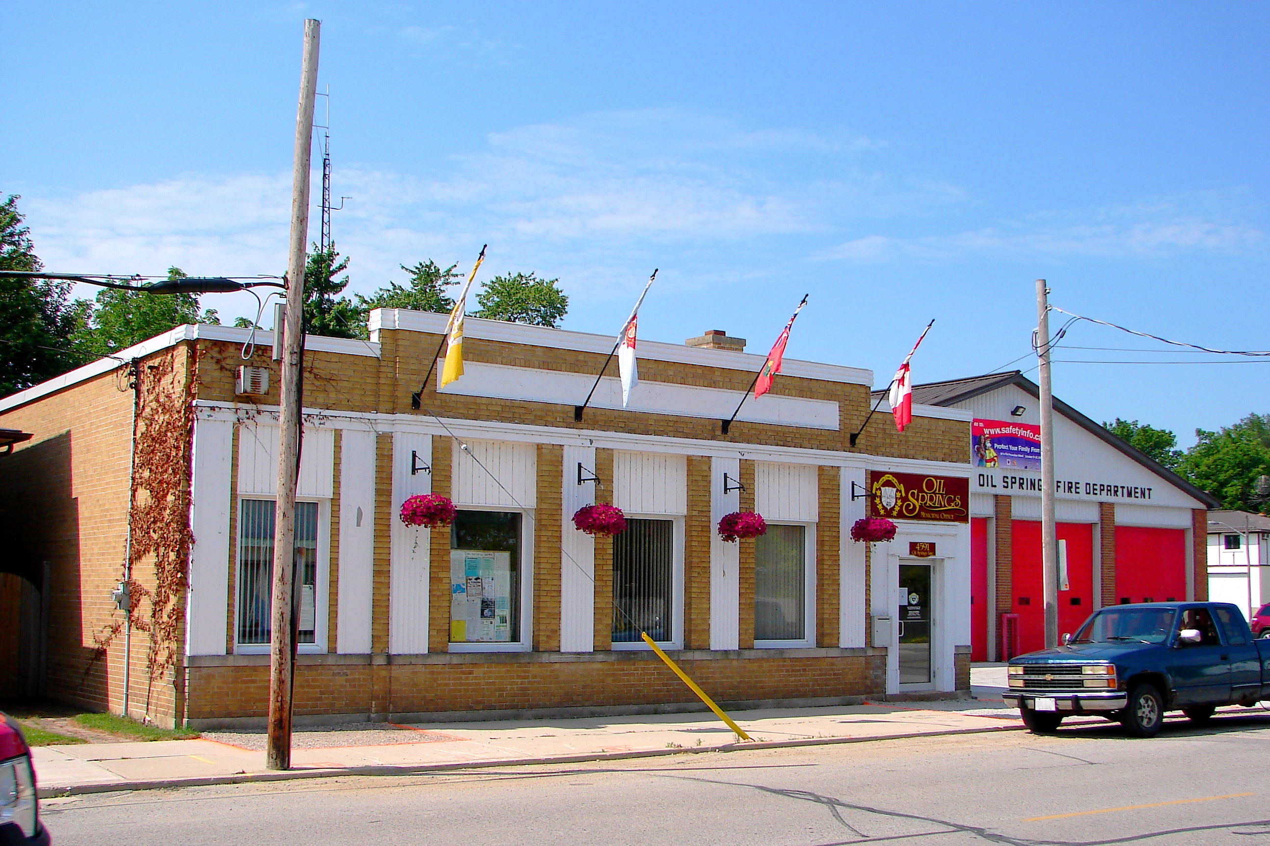 Municipal office of Oil Springs, Ontario, Canada